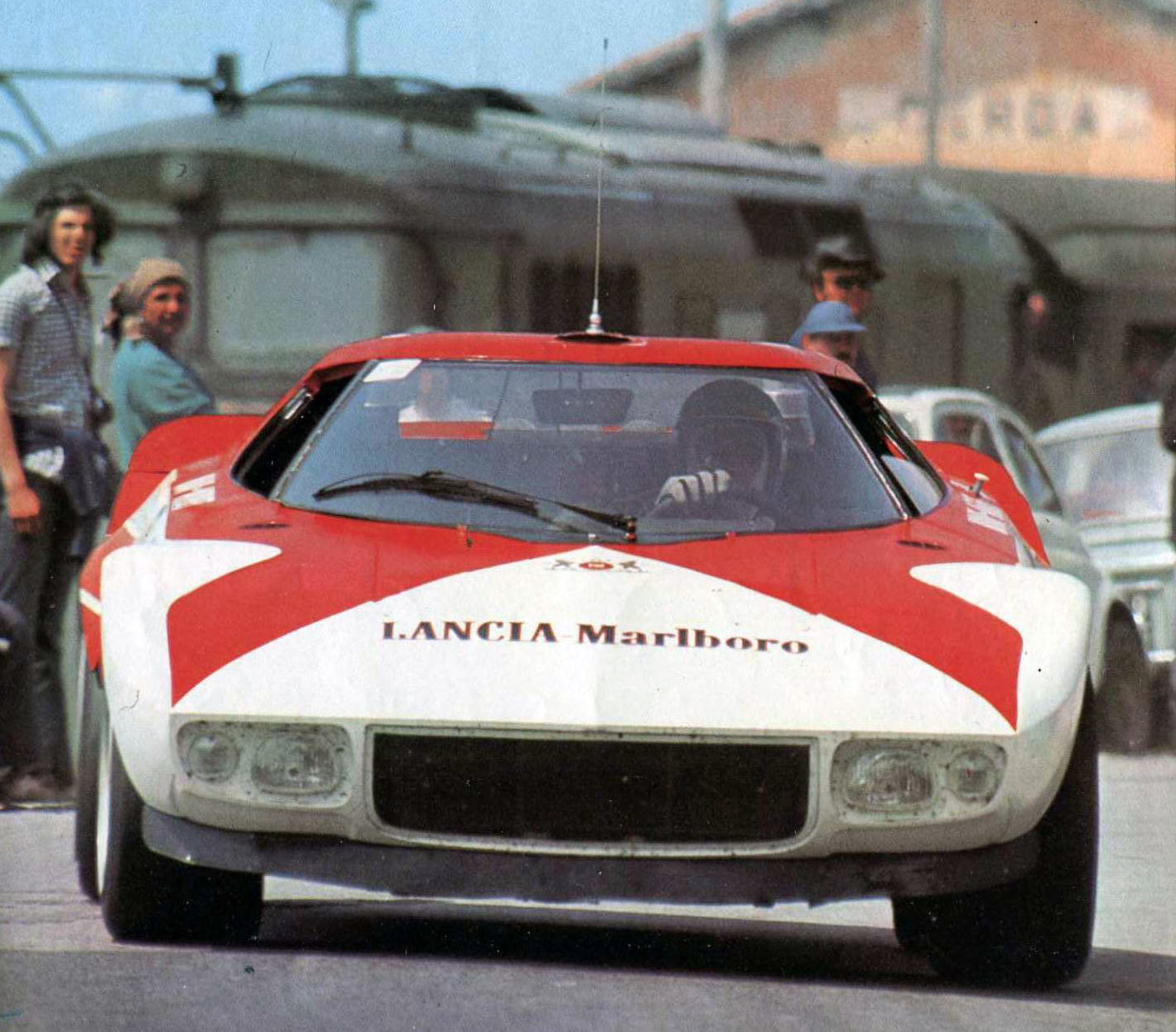 Province of Palermo (Sicily, Italy), "Piccolo Madonie" road circuit, May 13, 1973. Italian motor racing driver Sandro Munari on a Lancia Stratos HF 2.4 V6 (Prototype), sponsored Marlboro, at the 1973 Targa Florio.